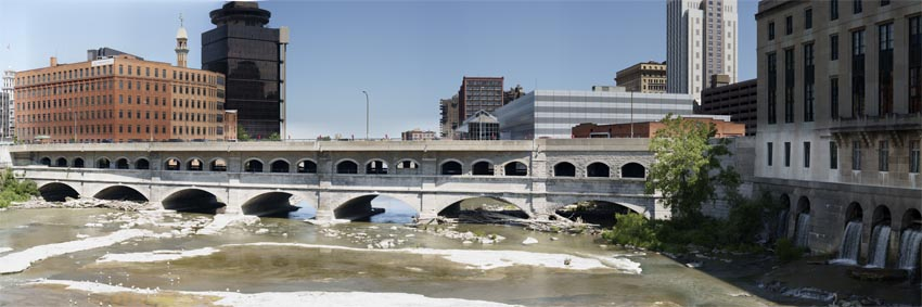 Old Erie Canal aqueduct passing over the Genesee River in Rochester, New York. Upper level is the Broad Street Bridge